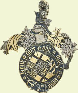 Garter stall-plate of Arthur Plantagenet, 1st Viscount Lisle (d.1542), KG, nominated to the Order in 1524. The main shield shows quarterly of four: 1st: Quarterly France modern and England (royal arms); 2nd & 3rd: de Burgh; 4th: Mortimer; over-all a bend sinister; over all an inescutcheon of pretence of Grey, Viscounts Lisle, quarterly of six, 1st: Barry of six argent and azure in chief three torteaux (Grey, Viscount Lisle); 2nd: Barry of argent and azure, an orle of martlets gules (Valence, Earl of Pembroke)(Byrne, Lisle Letters, vol.1, appendix 9: Roger de Grey, 1st Baron Grey de Ruthyn married Elizabeth Hastings, daughter of John Lord Hastings by his wife Isabel de Valence, daughter of William de Valence); 3rd: Gules, seven mascles or conjoined 3, 3, 1 (Ferrers of Groby); 4th: Gules, a lion rampant within a bordure engrailed or (Talbot); 5th: Gules, a fesse between six crosses crosslet or (Beauchamp); 6th: Gules, a lion statant guardant argent crowned or (Lisle)(Byrne, Lisle Letters, Vol.1, p.178) Crest: On a cap of maintenance gules turned up ermine, and inscribed in front with the letter A, a genet guardant per pale sable and argent, standing between two broom-stalks proper.(Byrne, Lisle Letters, vol.1, p.177)